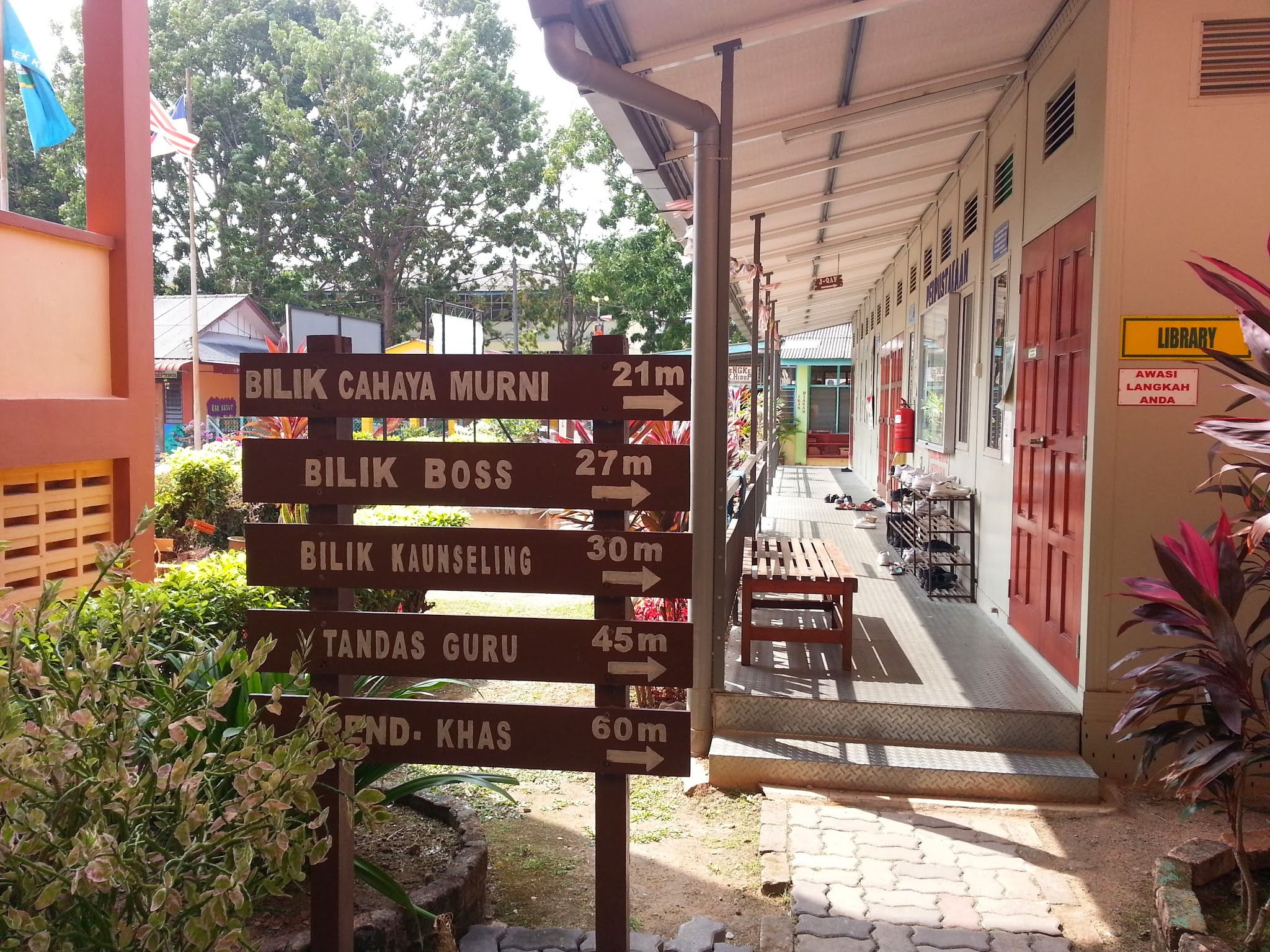 kabin sksb